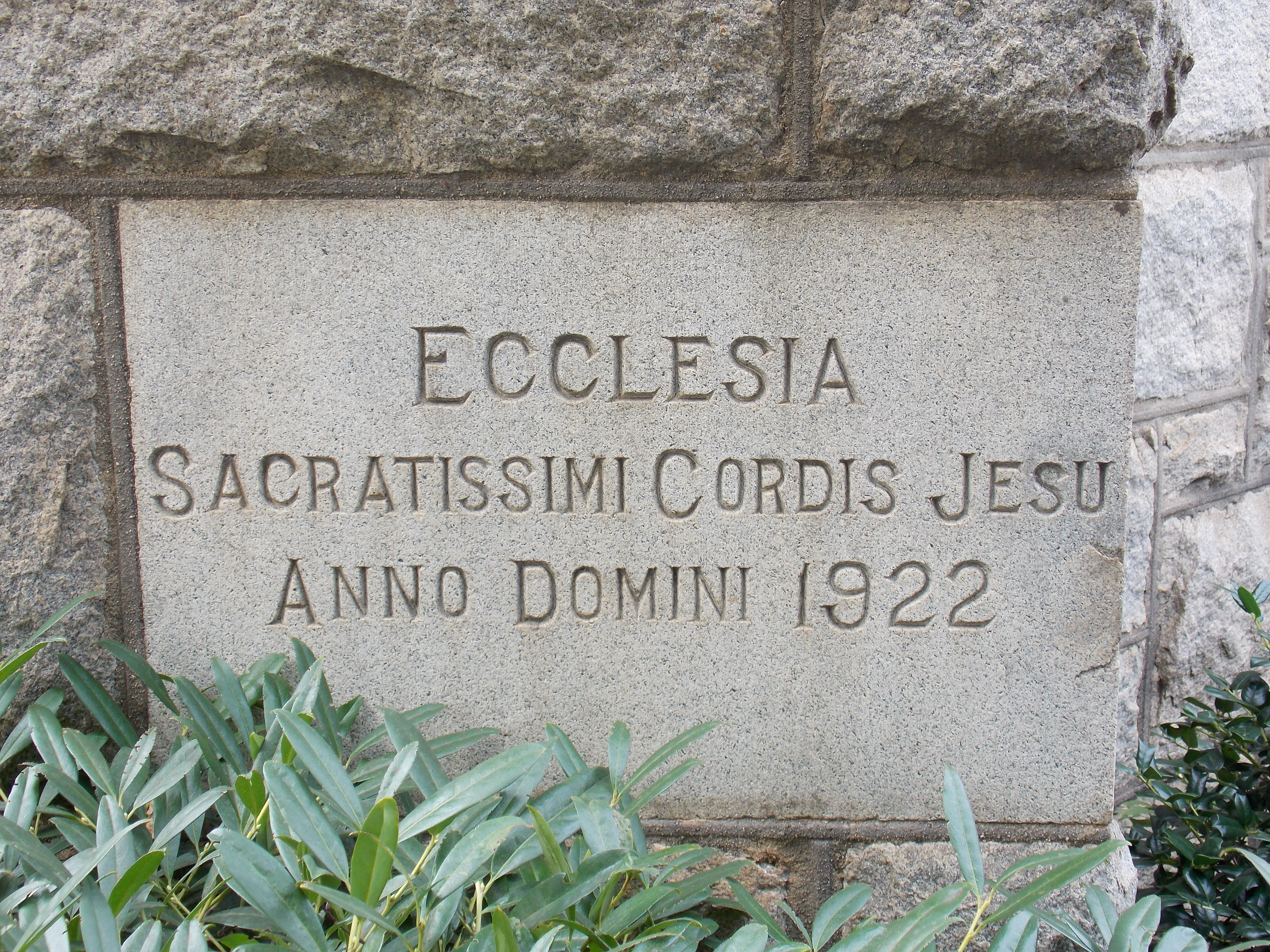 Sacred Heart Cathedral near downtown Raleigh, North Carolina.